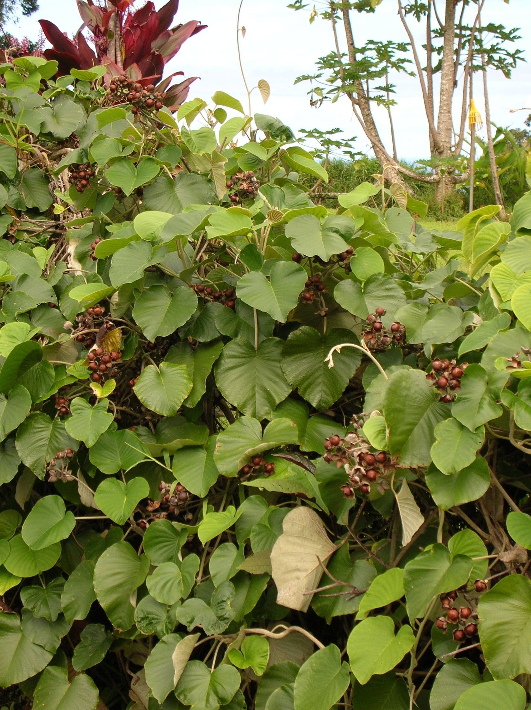 Argyreia nervosa (habit). Location: Maui, Hana Hwy Kailua